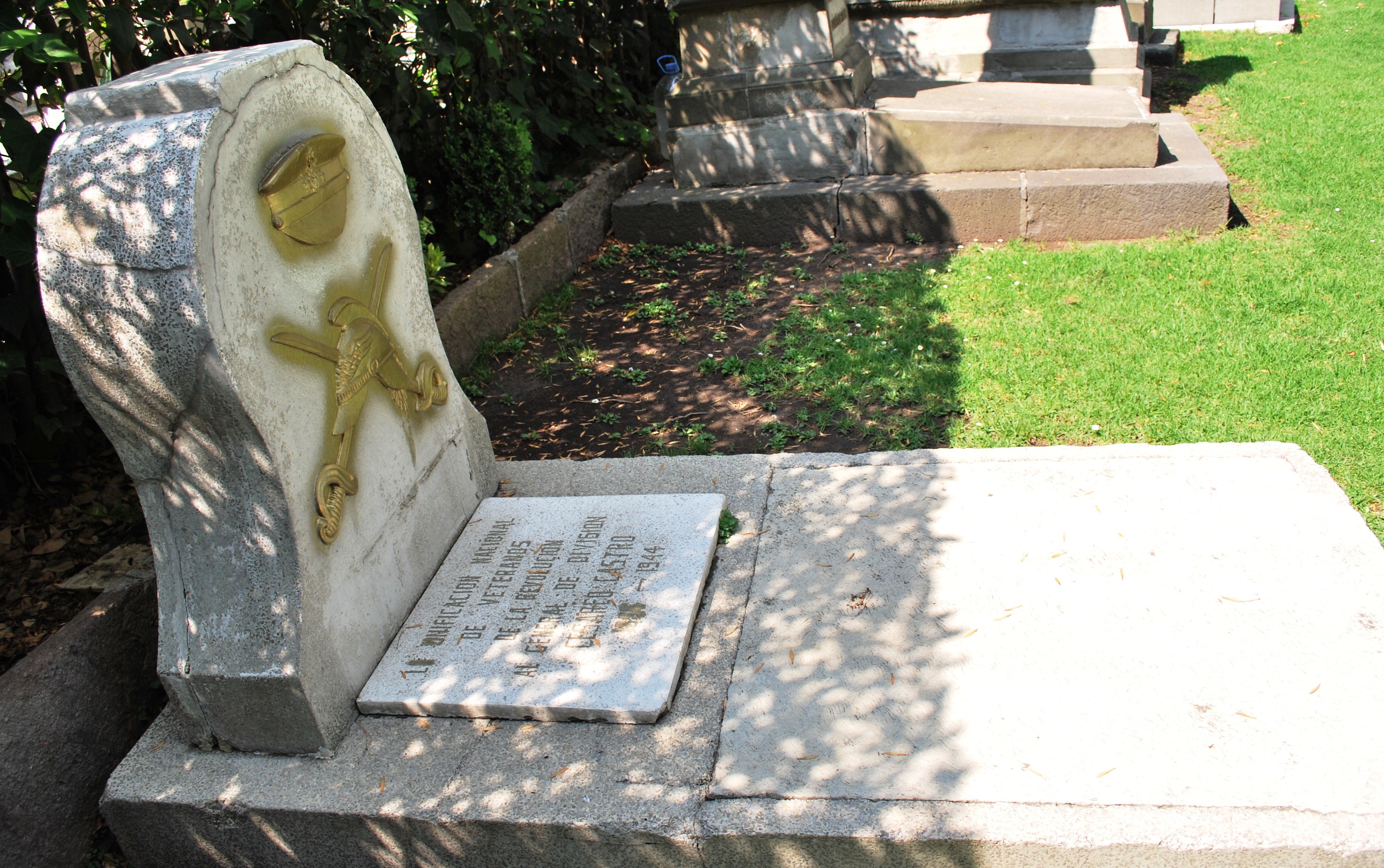 Tomb of General Cesareo Castro in the Panteon Civil de Dolores cemetery in Mexico City